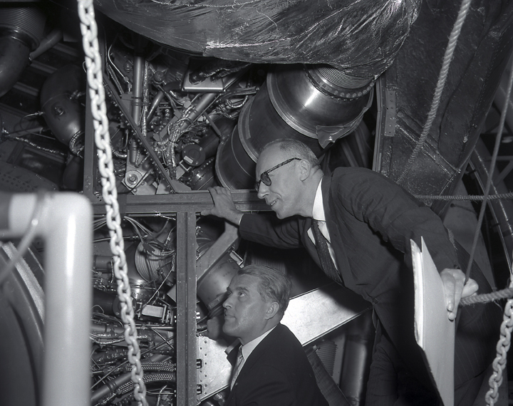 Dr. Wernher von Braun shows Congressman Olin Teague of Texas an H1 engine for the Saturn I launch vehicle during a visit to the Marshall Space Flight Center (MSFC) by the members of the House Committee on Science and Astronautics on March 9, 1962.